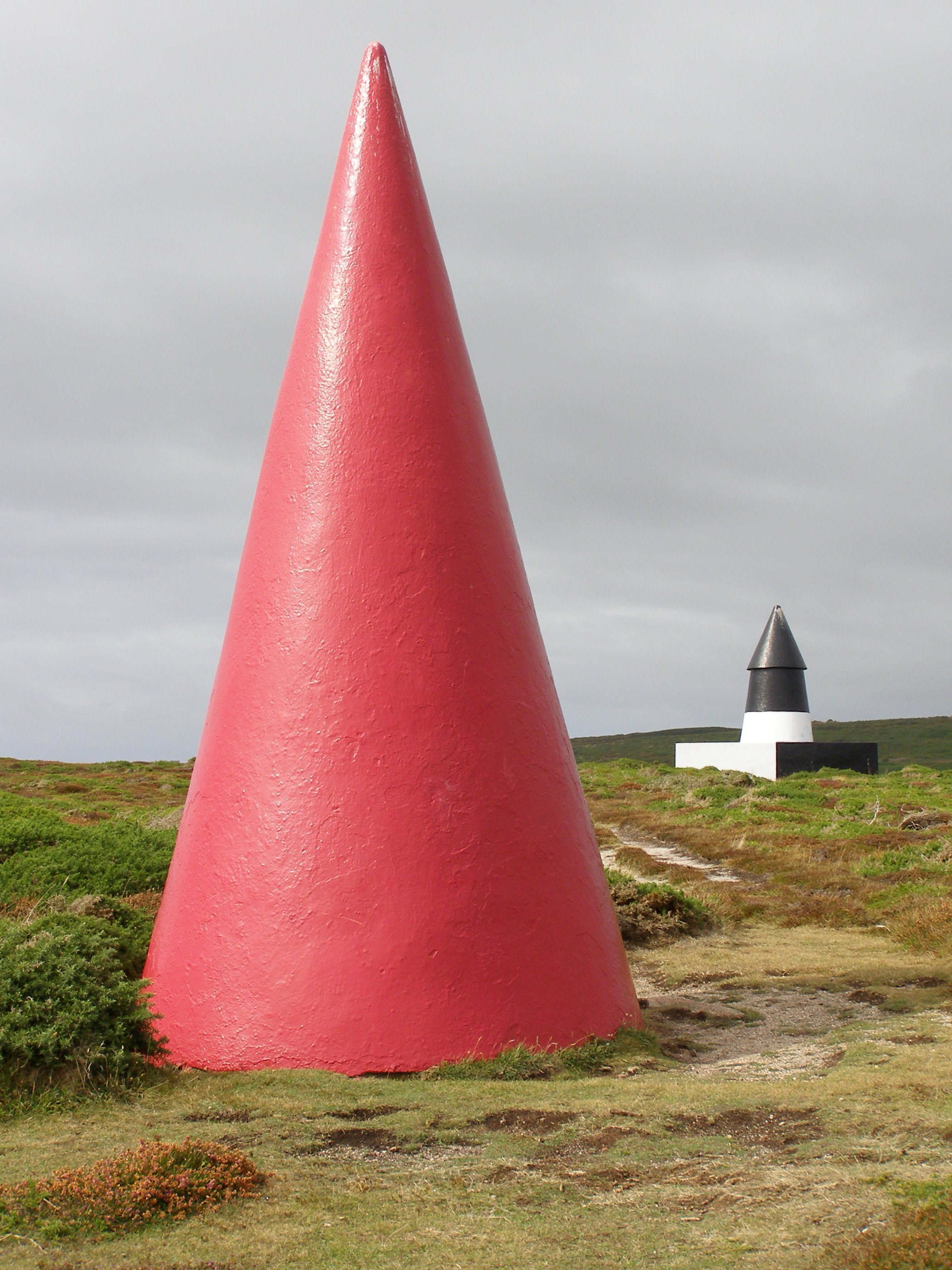 Trinity House navigation daymarks on Gwennap Head, near Porthgwarra. When the red cone obliterates the black and white one the observer at sea is directly above the dangerous Runnel Stone.